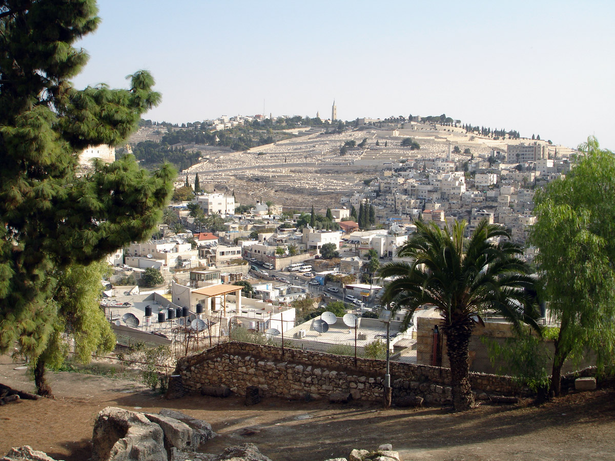 Ophel (City of David), Jerusalem, Israel. The Kidron Valley and Mount of Olives are in the background.